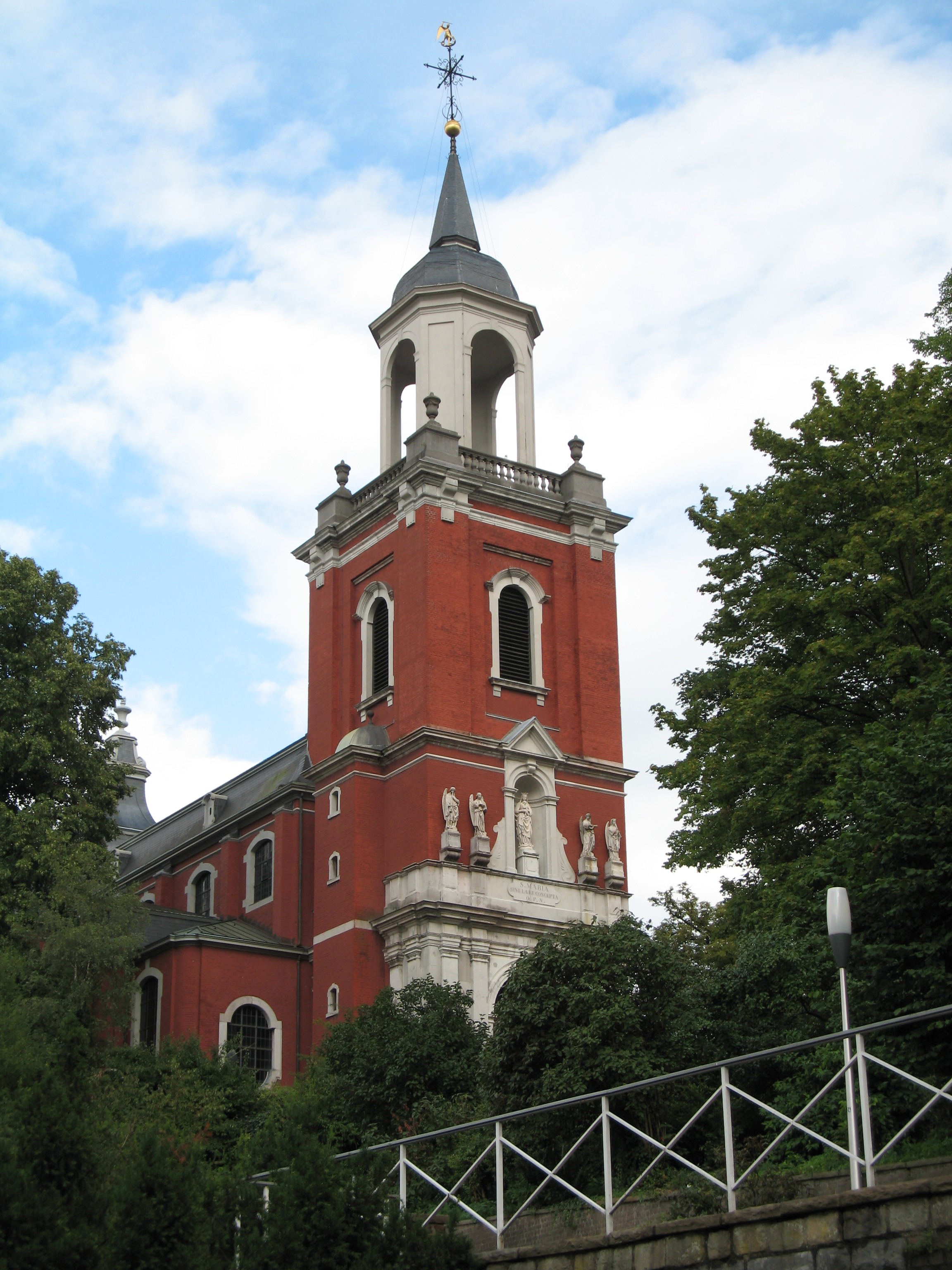 Catholic parish church St. Michael in Aachen, Germany